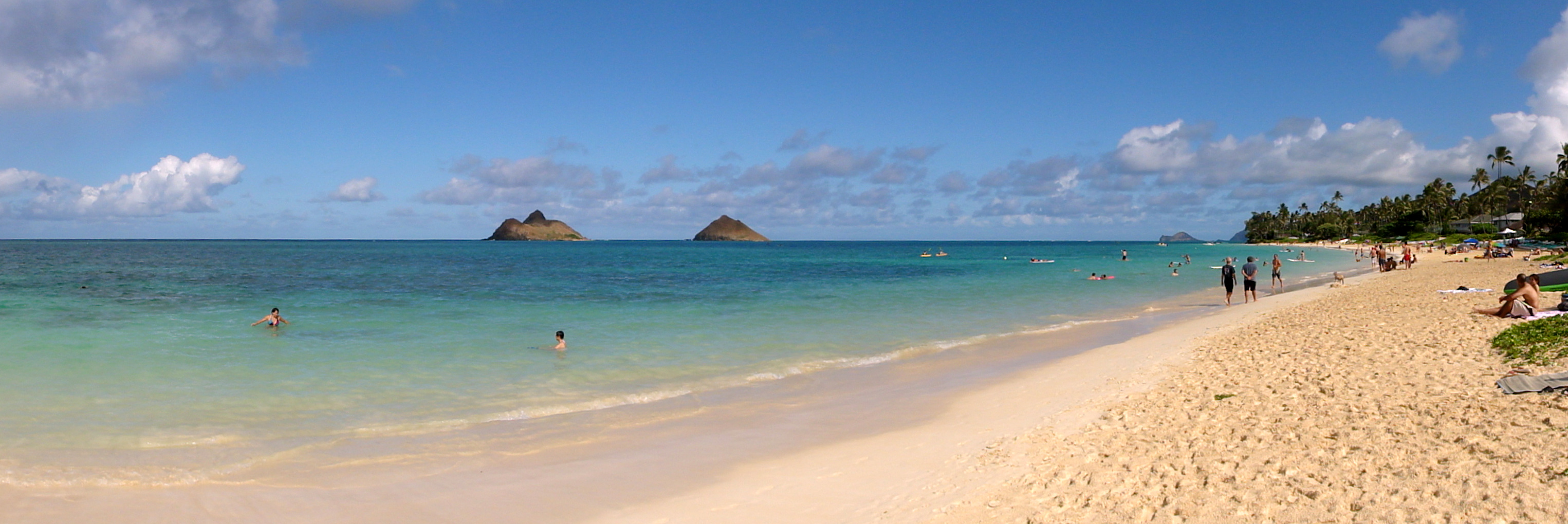 Lanikai Beach, Oahu - Hawaii